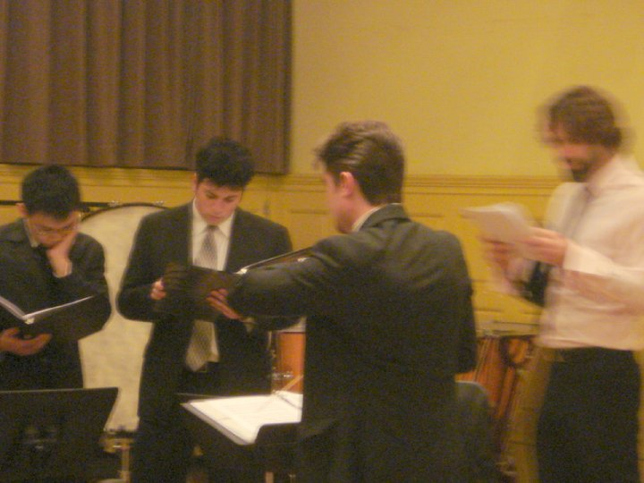 Rehearsal picture.